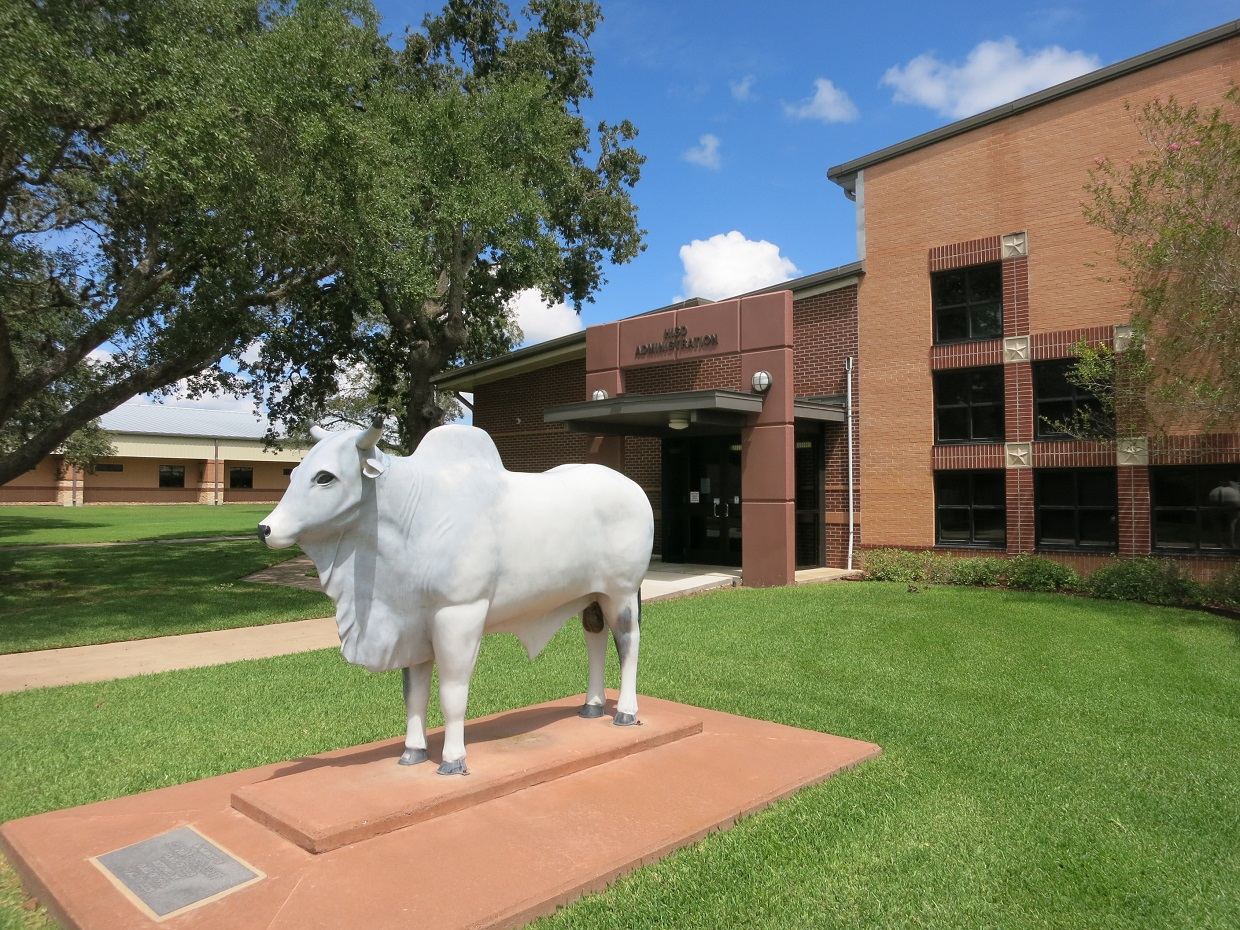 Photo shows the Hallettsville Independent School District offices at 302 N Ridge Street, Hallettsville, TX 77964. View is toward the northeast.